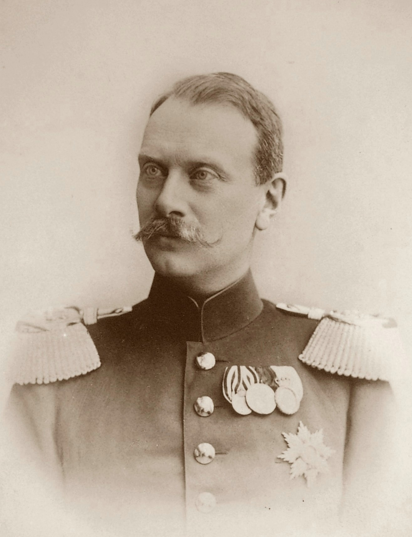 Photographic portrait of the later Grand Duke Frederick II of Baden (1857–1928).